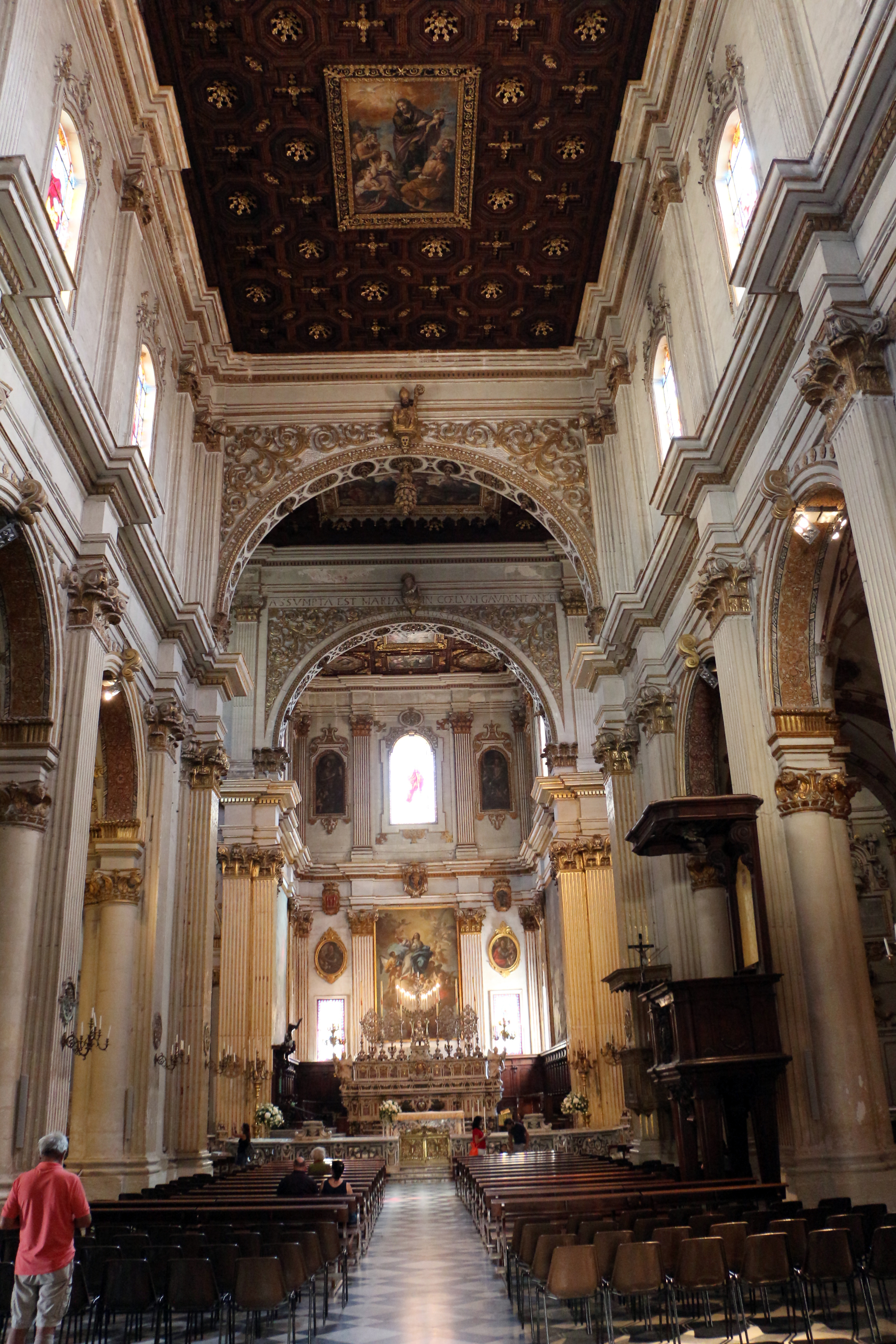 Buildings in Lecce